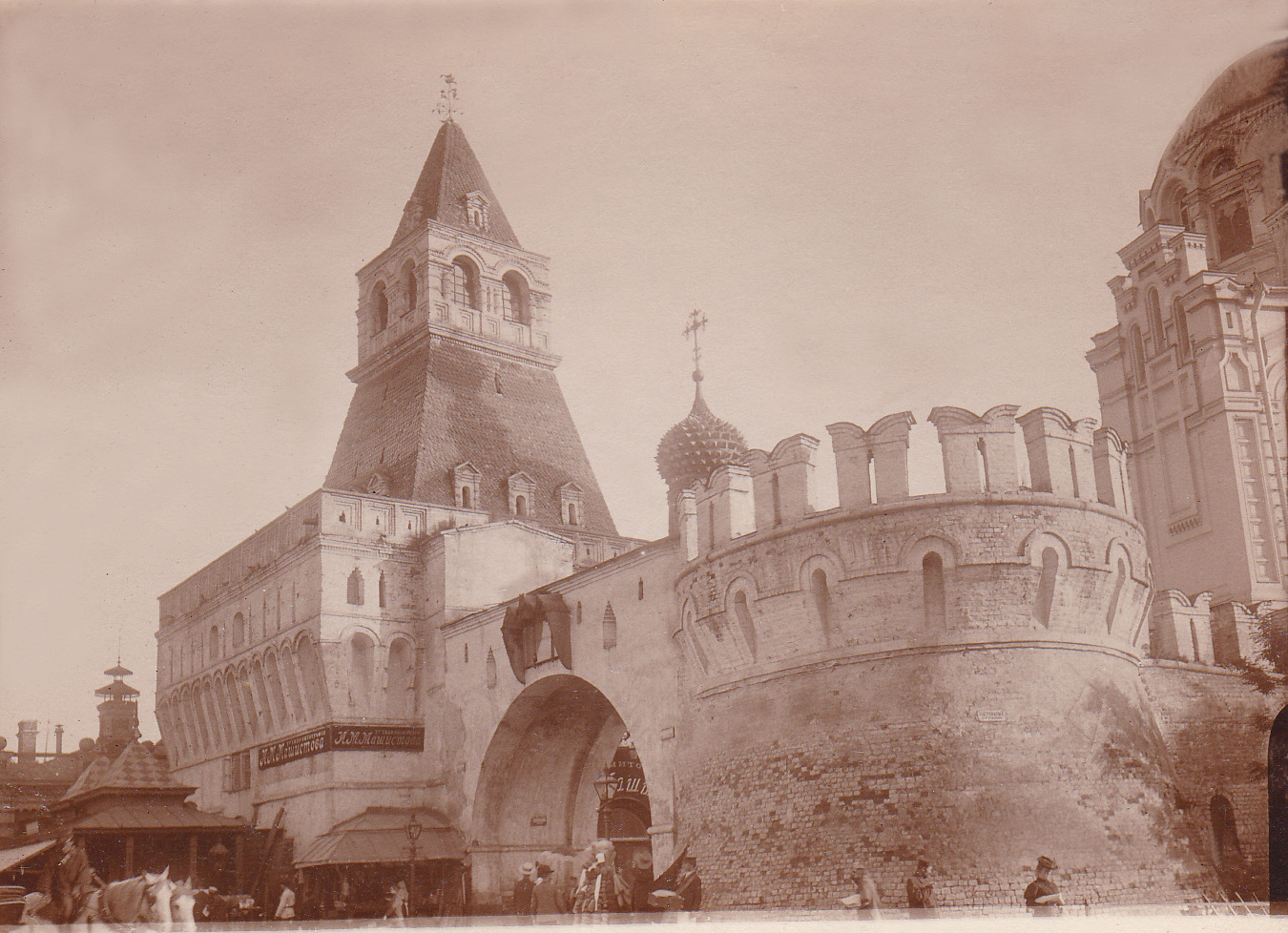 Vladimirsky Gate and unnamed corner tower of Kitai-gorod.